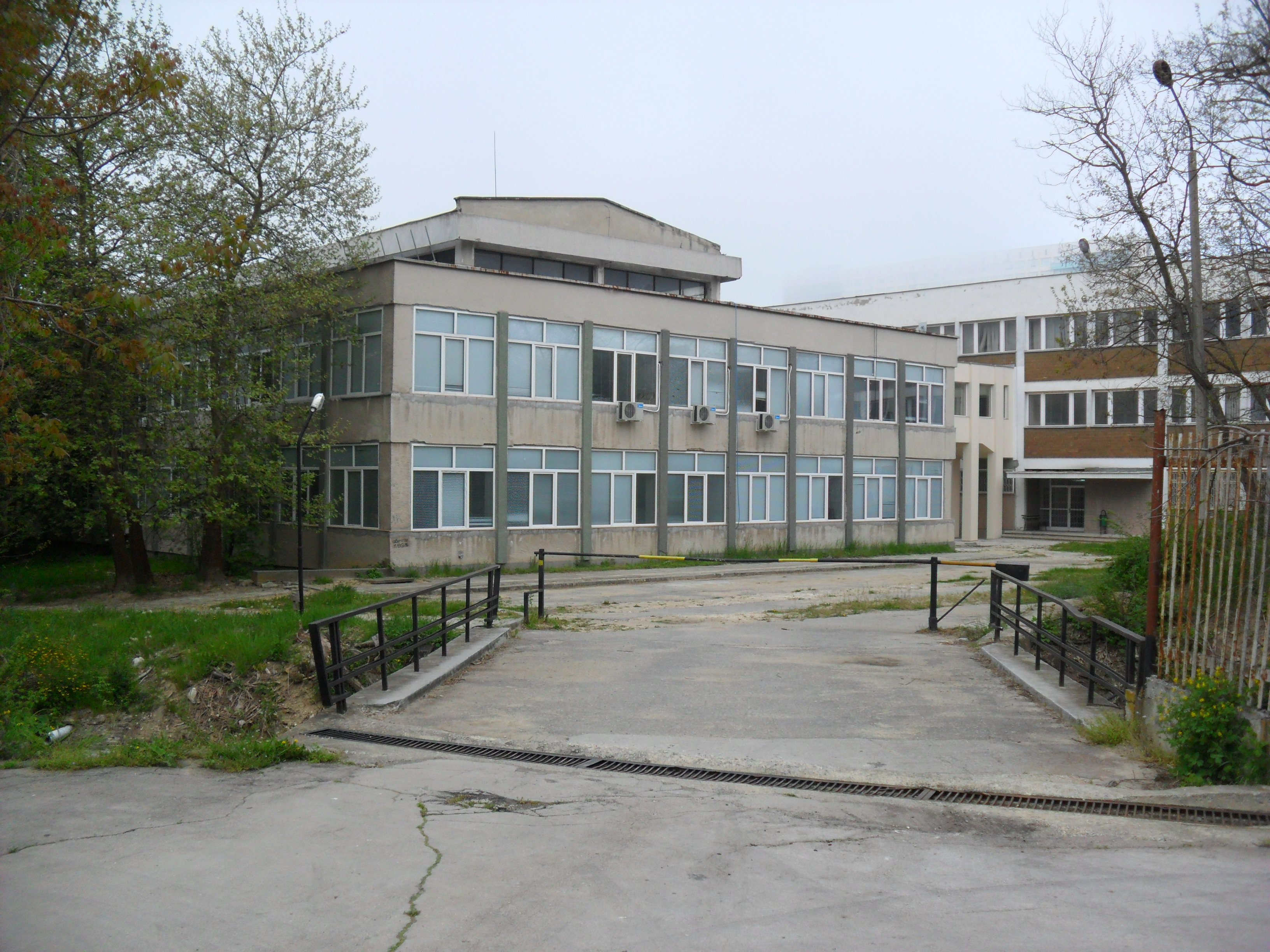 May 2015